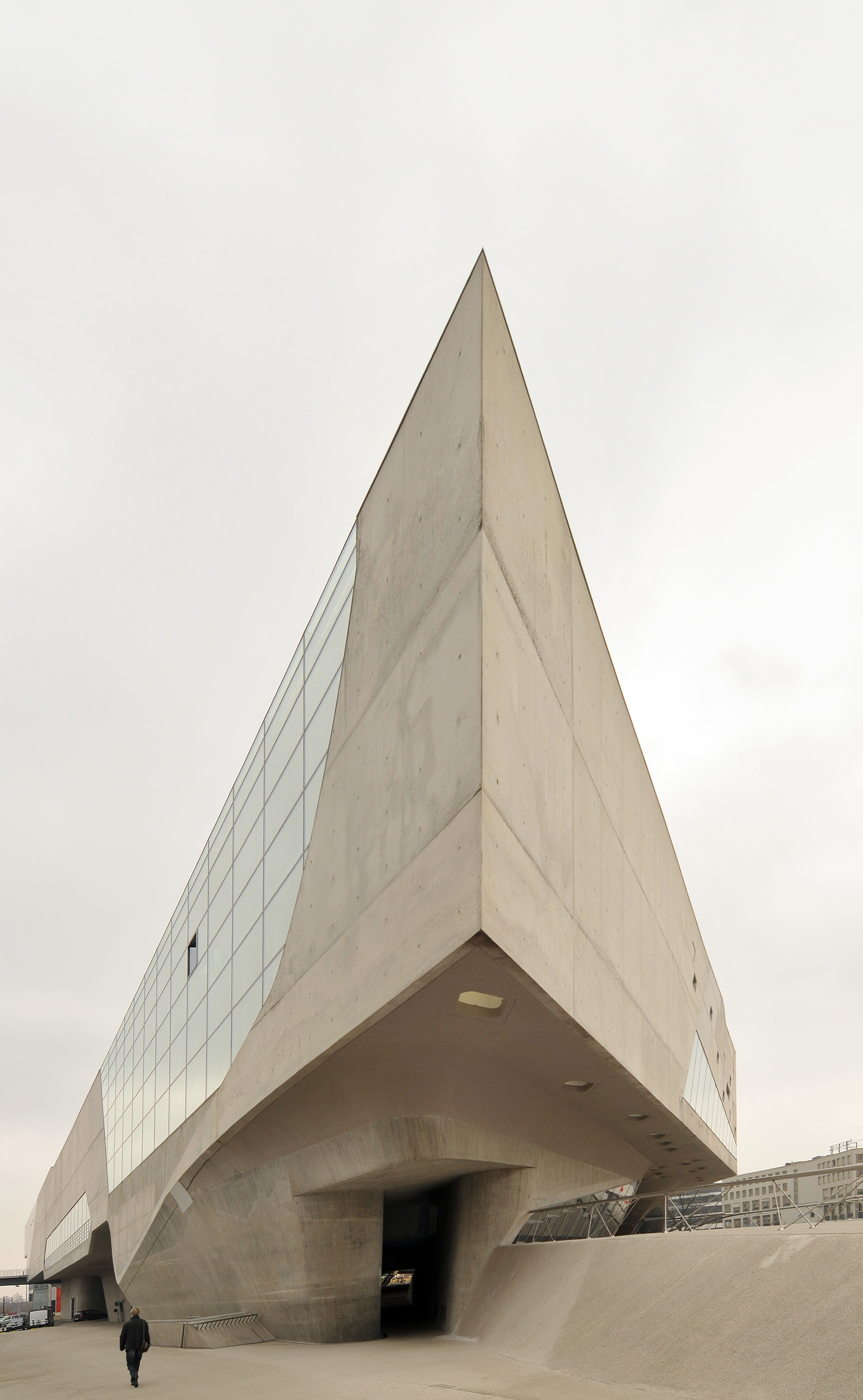 The Phæno Science Center is an interactive science center in Wolfsburg, Lower Saxony, Germany, completed in 2005 by Zaha Hadid.